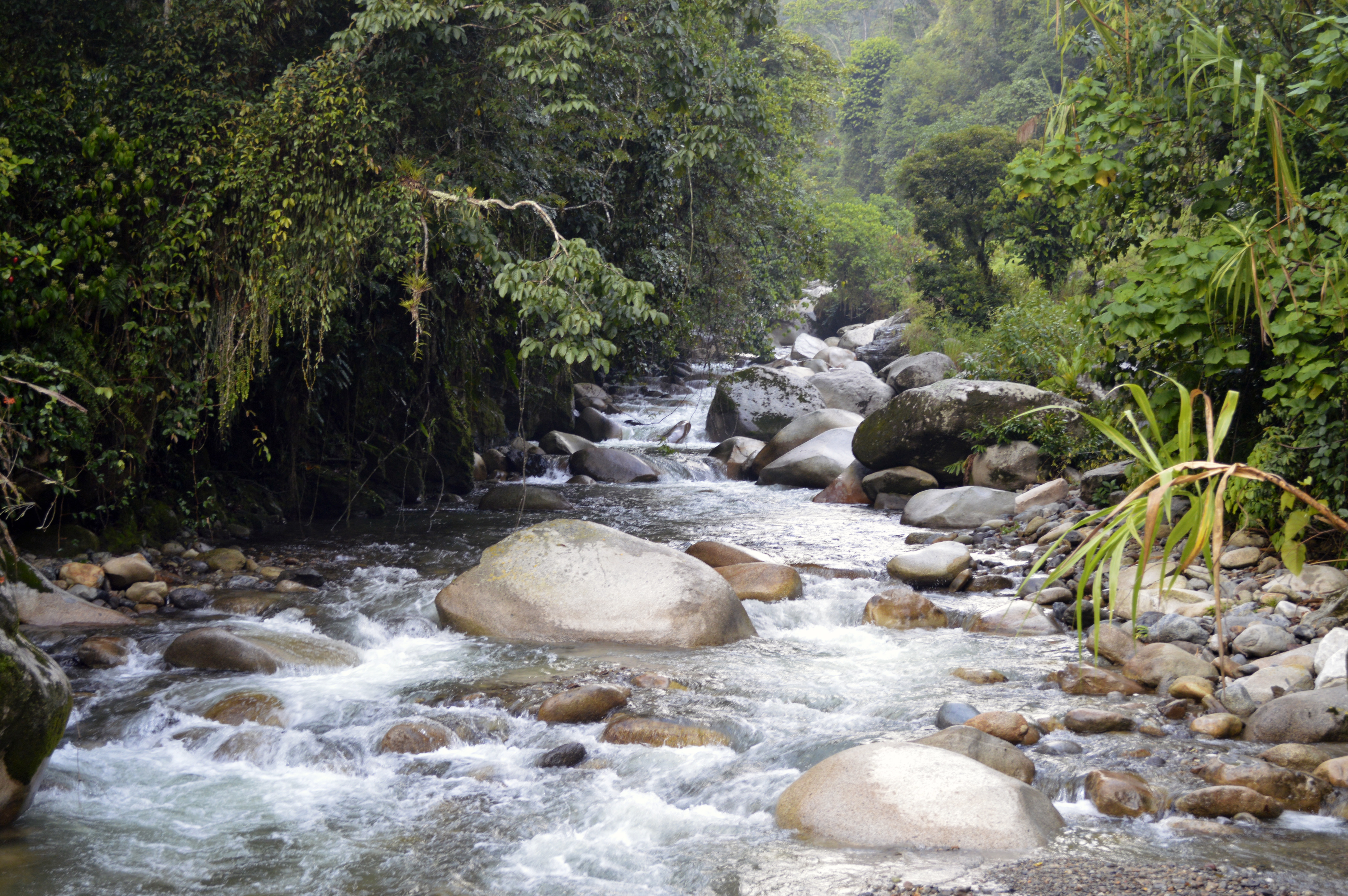 Salazar River, Veredas Amarilla and Camponuevo Sur, municipality of Salazar de las Palmas